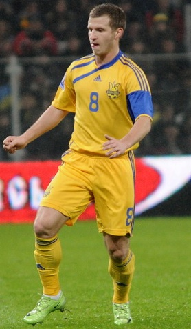 Oleksandr Aliyev